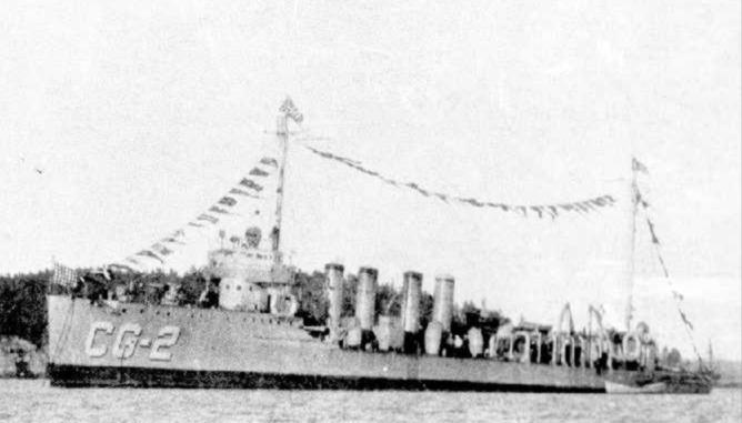 USCGC Conyngham (CG-2), ex-USS Conyngham (DD-58), on Coast Guard service during the Prohibition Era.